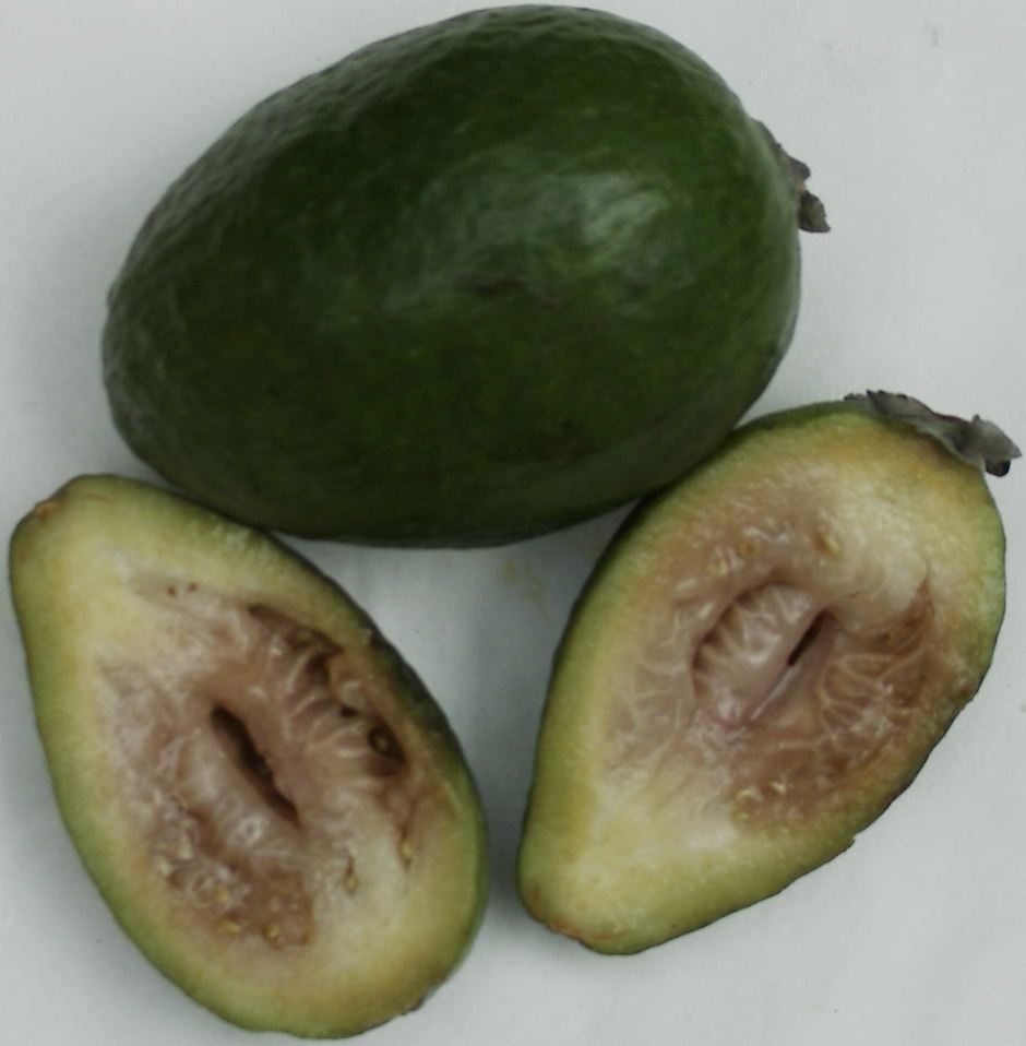 Two feijoas, one of them longitudinally cut to show the light pink pulp. Picture taken by Fibonacci.